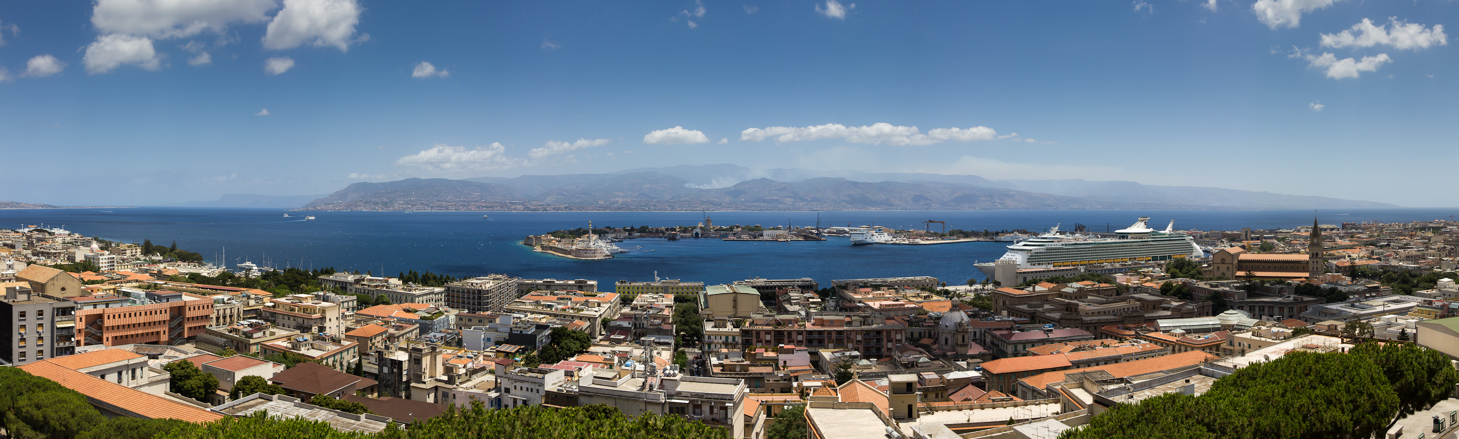 Messina Strait seen from Messina towards the Italian Mainland Panorama 1/320sec at f/8 ISO 100 EF-S 15-85 f3.5-5.6 IS USM at 28mm The Strait of Messina (Stretto di Messina in Italian, Strittu di Missina in Sicilian) is the narrow passage between the eastern tip of Sicily and the southern tip of Calabria in the south of Italy. It connects the Tyrrhenian Sea with the Ionian Sea, within the central Mediterranean. At its narrowest point, it measures 3.1 km (1.9 mi) in width, though near the town of Messina the width is some 5.1 km (3.2 mi) and maximum depth is 250 m (830 ft). A ferry service connects Messina on Sicily with the mainland at Villa San Giovanni, which lies several kilometers north of the large city of Reggio Calabria; the ferries hold the cars (carriages) of the mainline train service between Palermo and Naples. There is also a hydrofoil service between Messina and Reggio Calabria. The strait is characterized by strong tidal currents, that established a unique marine ecosystem. A natural whirlpool in the Northern portion of the strait has been linked to the Greek legend of Scylla and Charybdis. In some circumstances, the mirage of Fata Morgana can be observed when looking at Sicily from Calabria (Wikipedia) Best view: press "L"